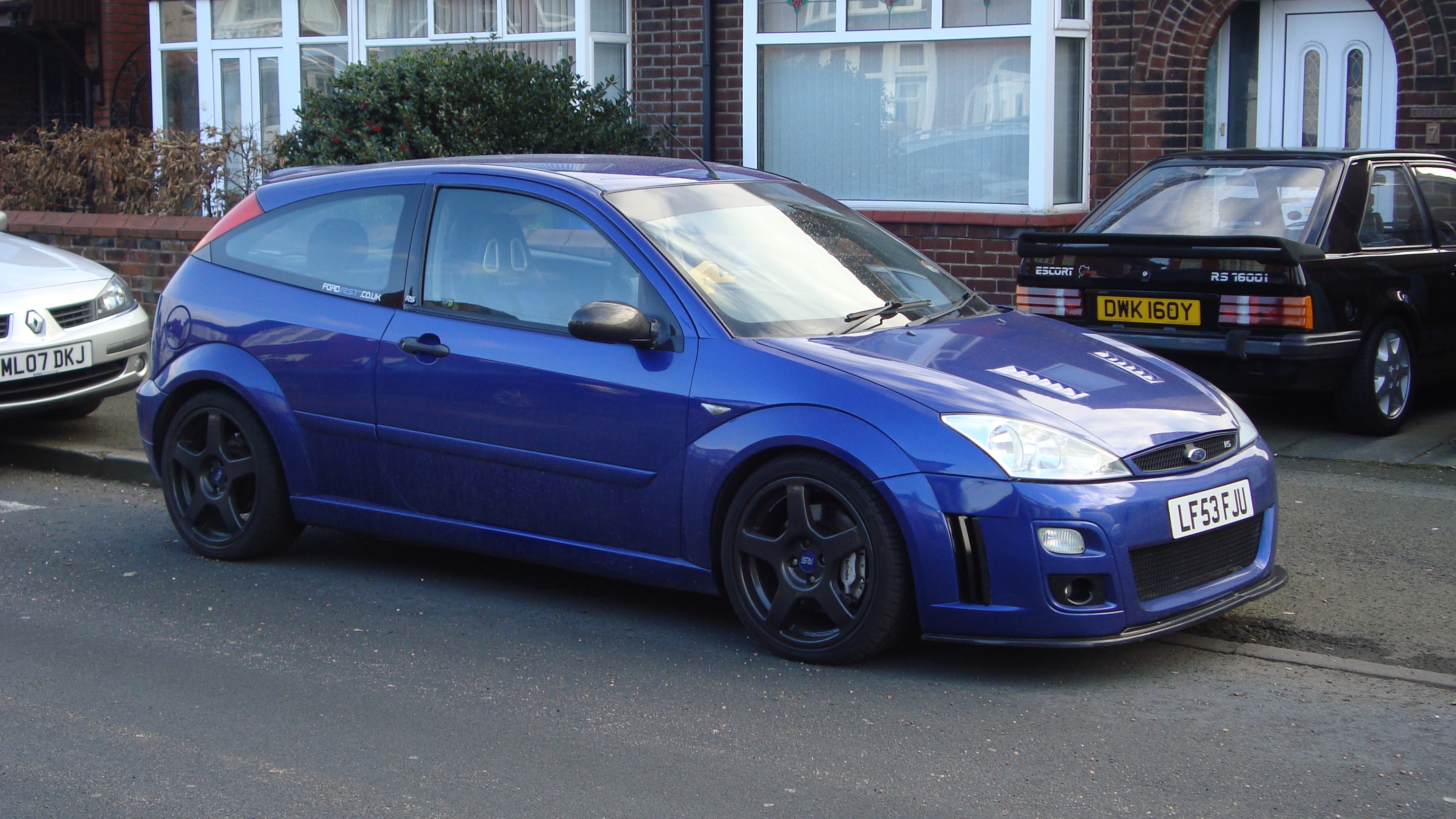 I've love both the Focus RS models but would take a MK1 over a MK2, they just seem more special